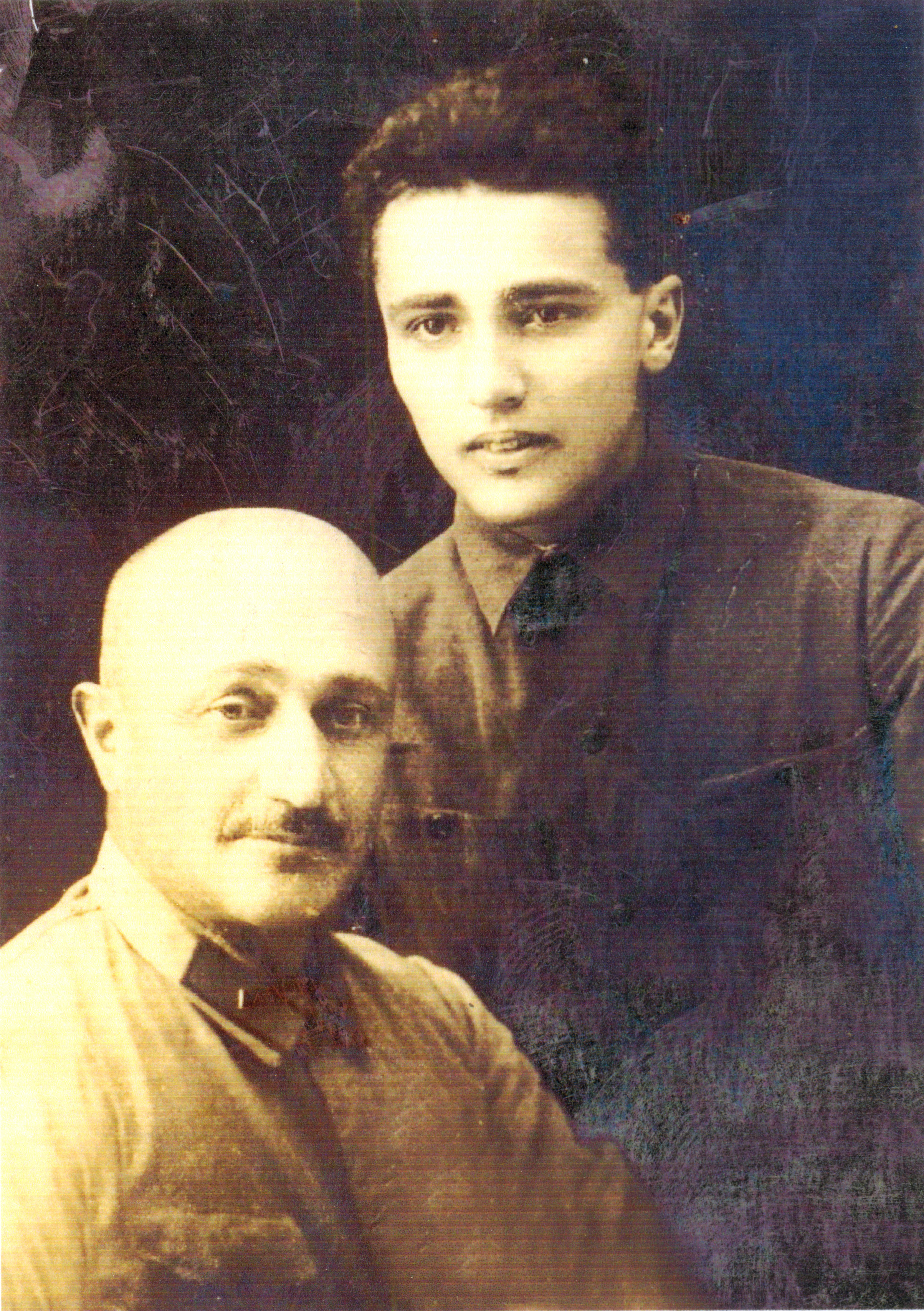 Christophot Araratov with his son in 1923